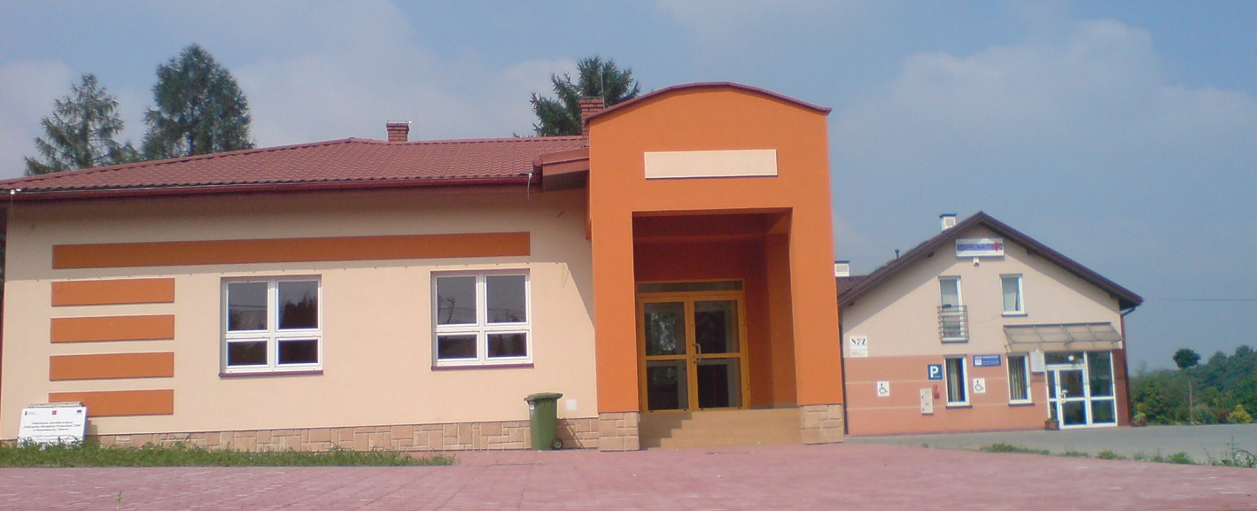 Nowodworze village. The folk house(on the left) and health center(on the right).